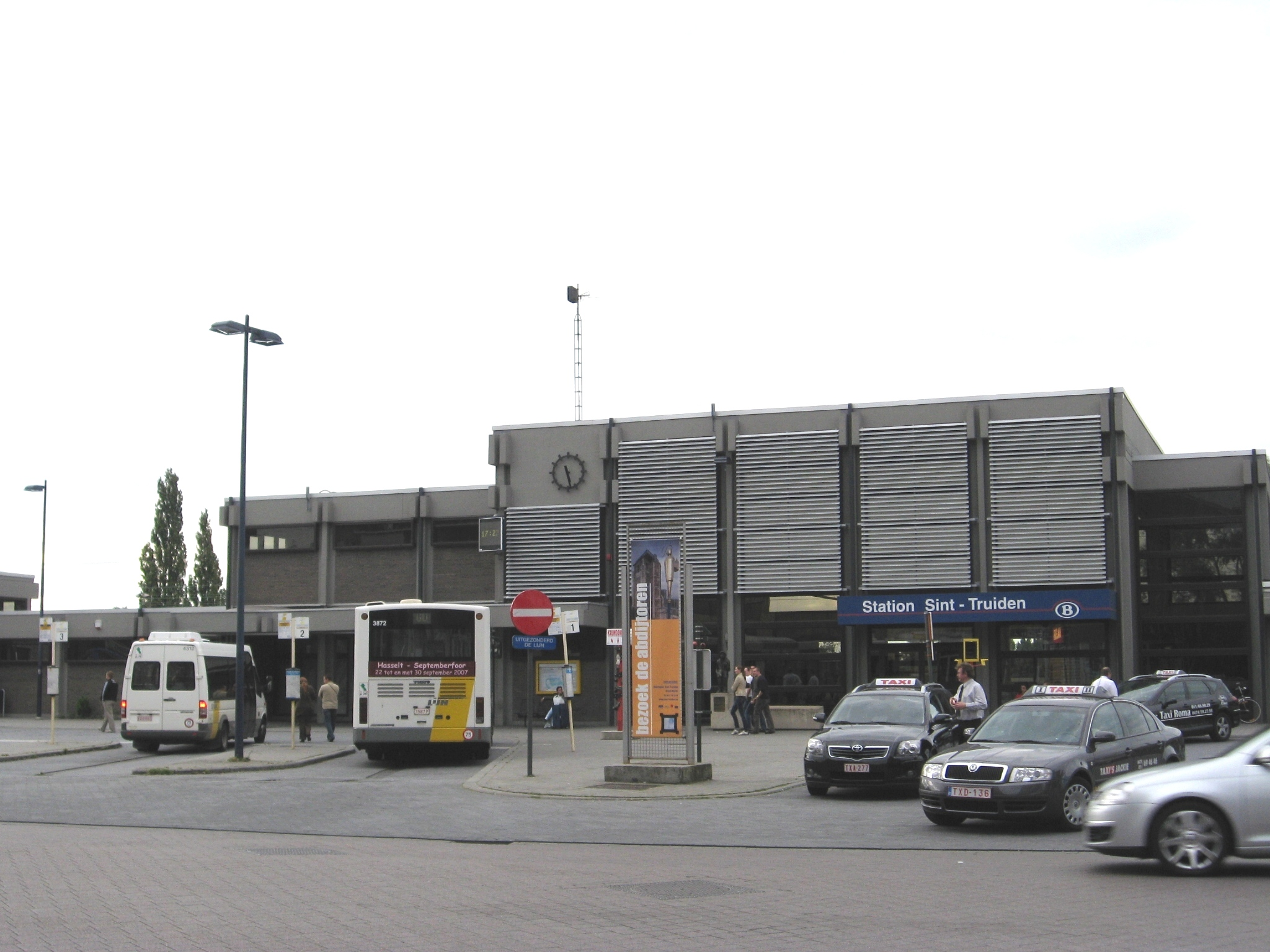 Sint-Truiden railway station, Belgium